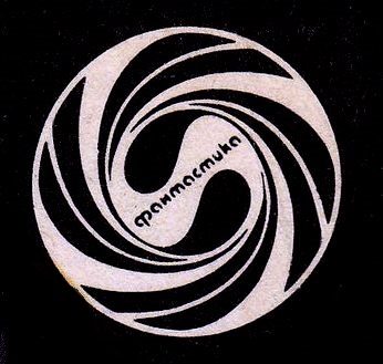 vtoroto logo na fantastika